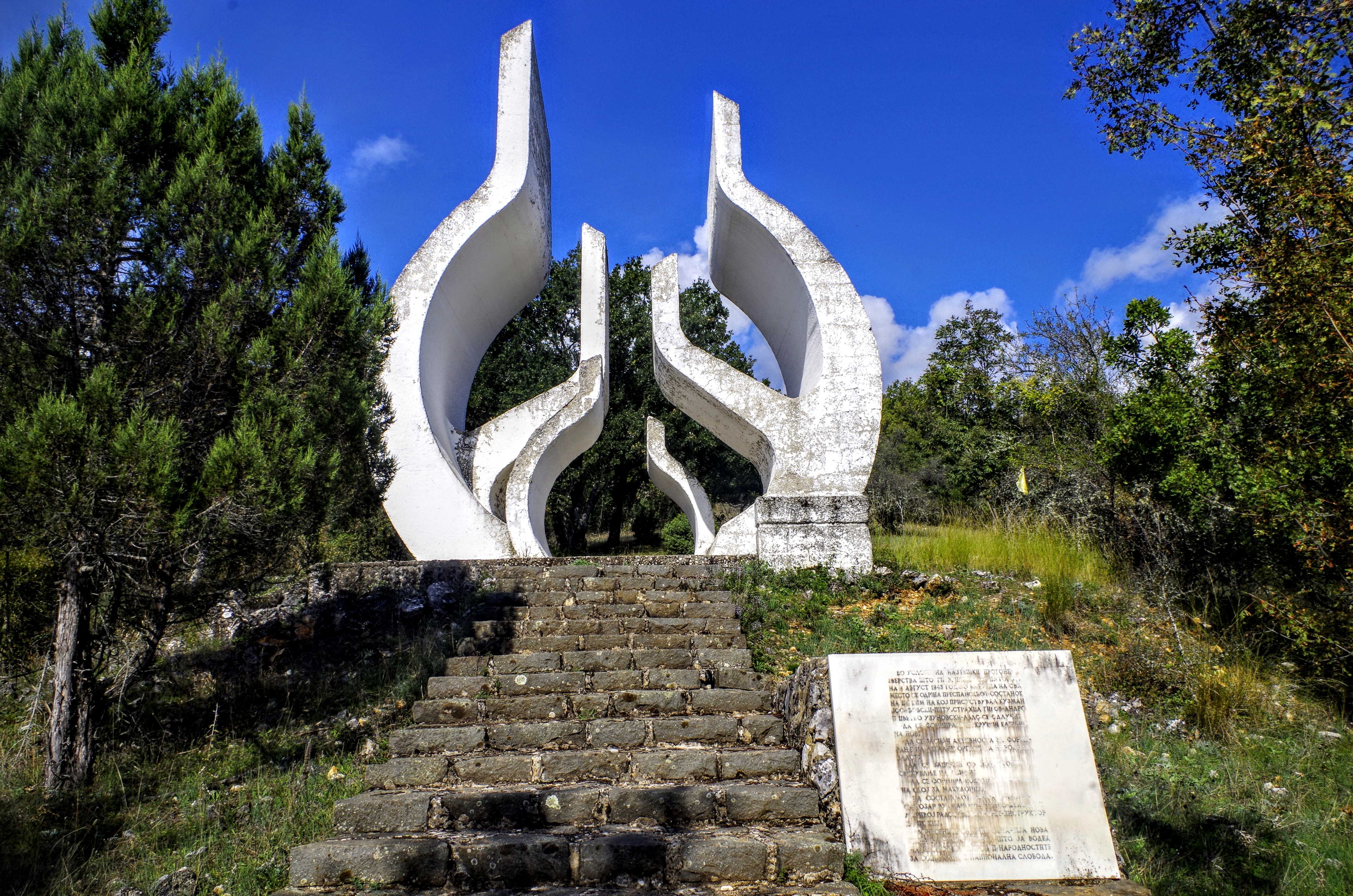 View of the Memorial of the Prespa Meeting, near village Oteševo